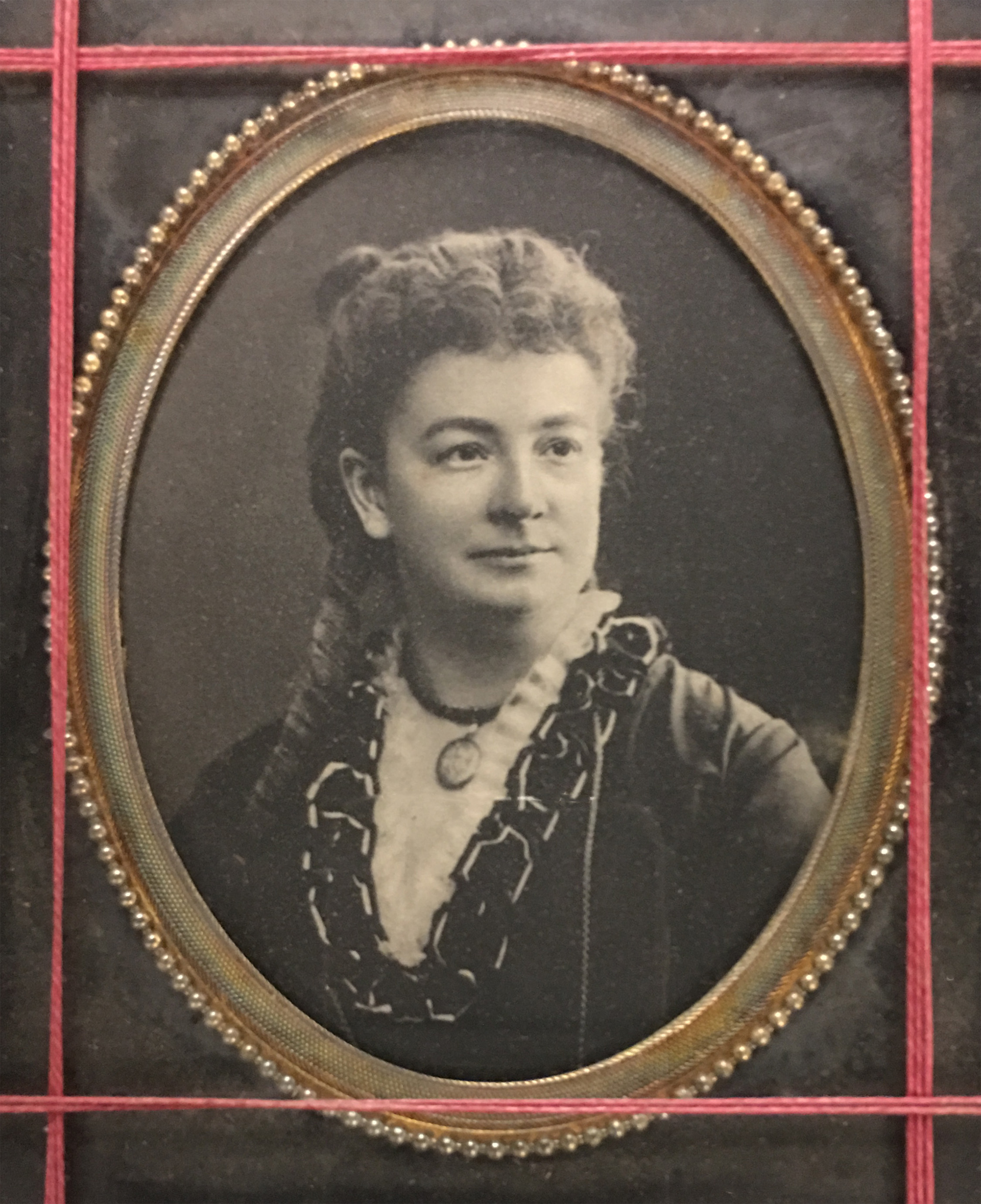 Hellen Kate Furness (1838–1883), wife of Howard Horace Furness. Photo displayed at the H.K. Furness Library since about 1916.